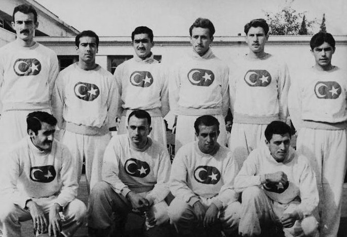 Turkey men's national basketball team in 1946-1947. From left to right: Back row - Nezihi Okuş, Tevfik Tankut, Avram Barokas, Ali Uras, Sati İpek, Mehmet Ali Yalım Front row - Nejat Diyarbakırlı, Sermet Türkmenoğlu, Yakovas Bilek, Samim Göreç